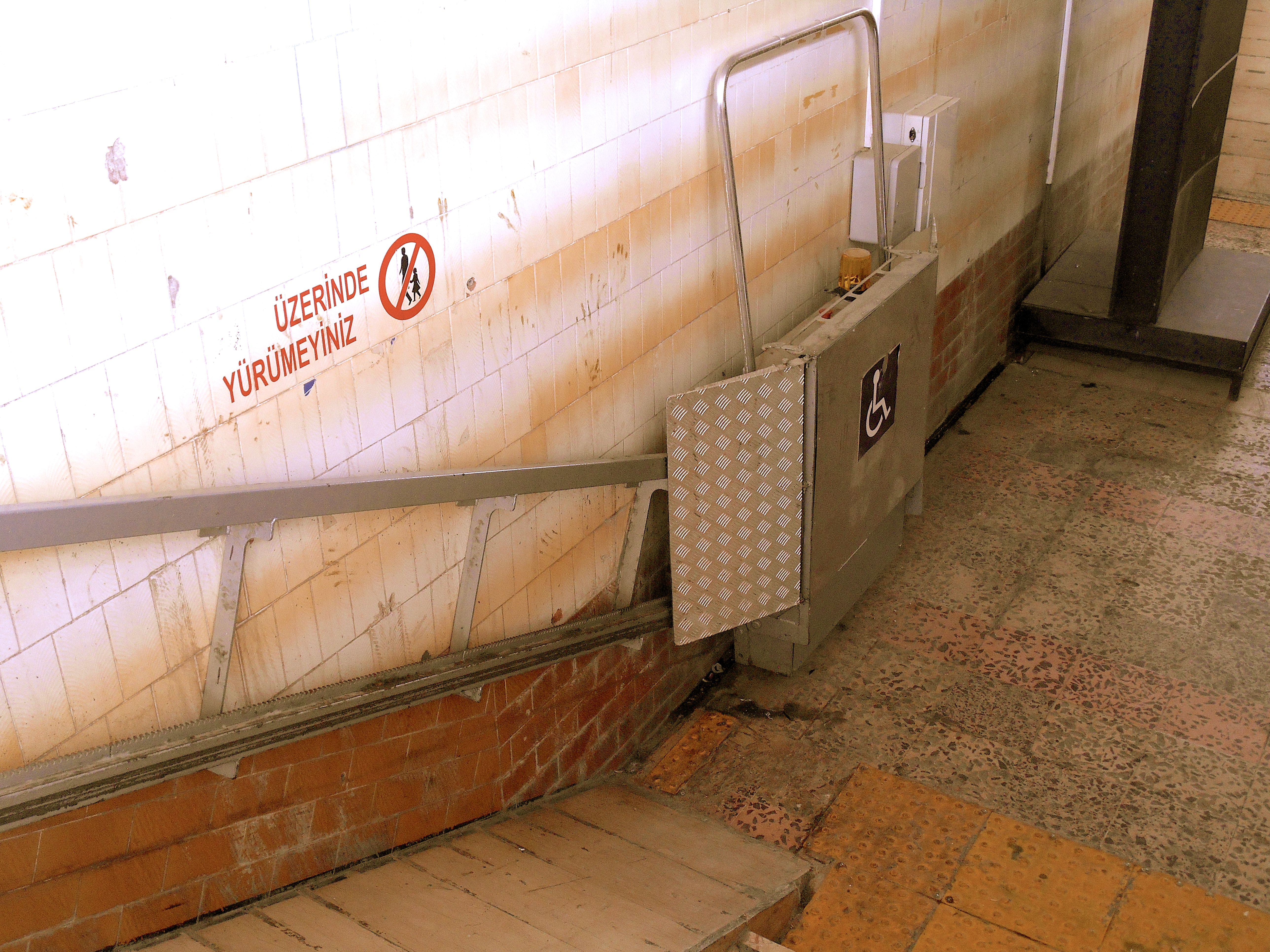 Wheelchair escalator